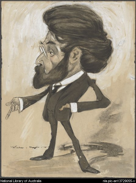 Australian politician King O'Malley.